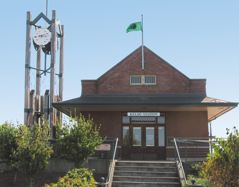 View of Kelso Multimodal Transportation Center, Kelso, Washington, USA